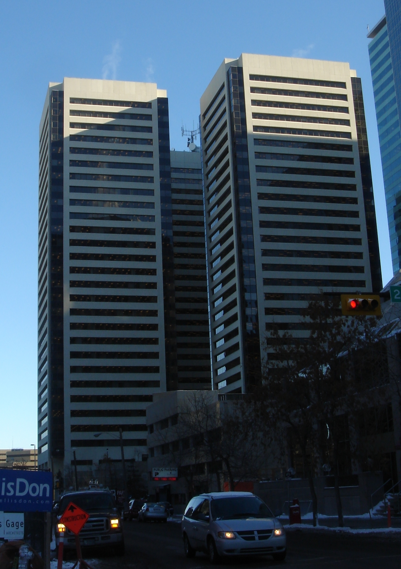 Sunlife Plaza, Calgary Alberta